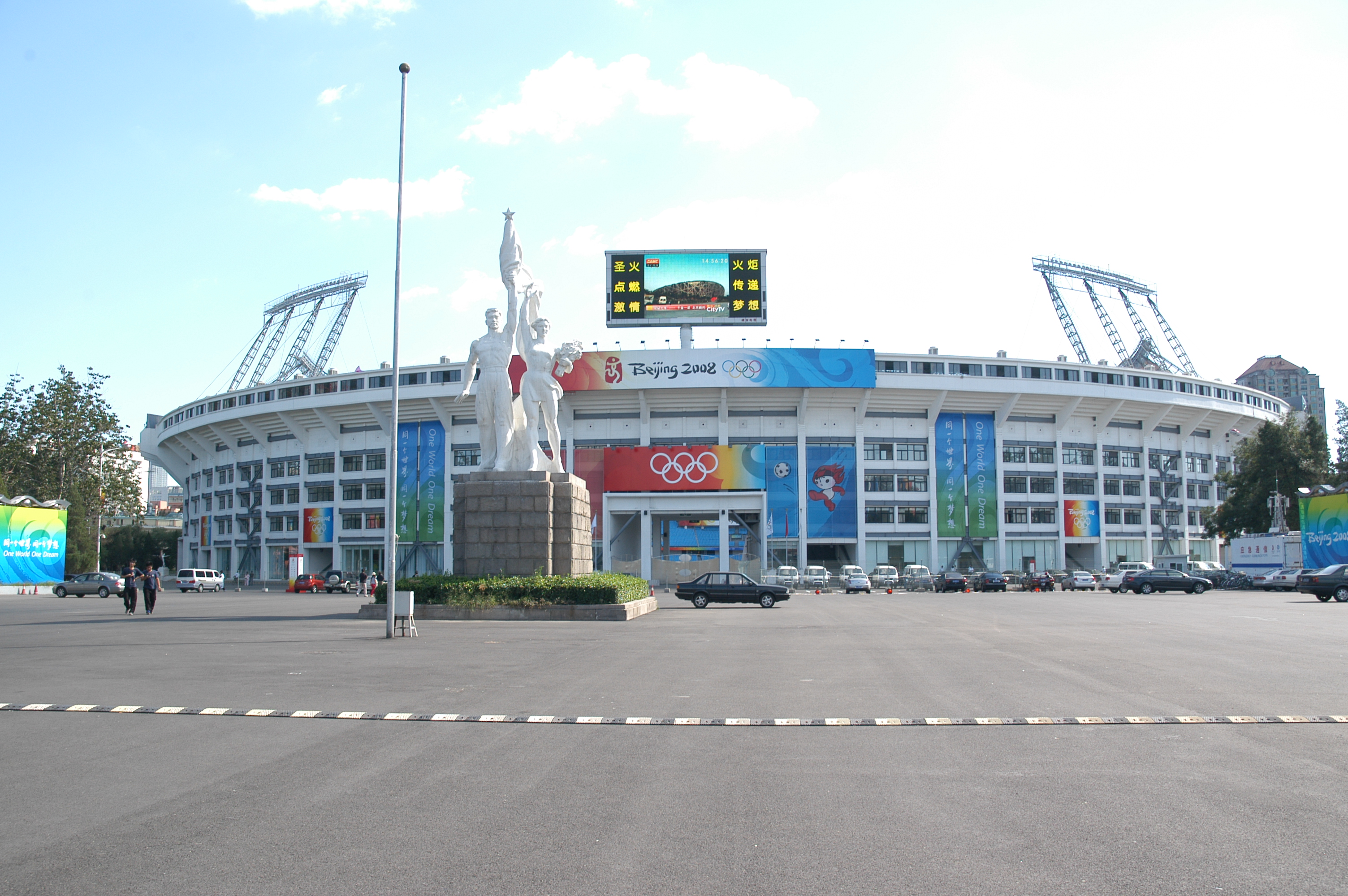 Worker's Stadium, Beijing China